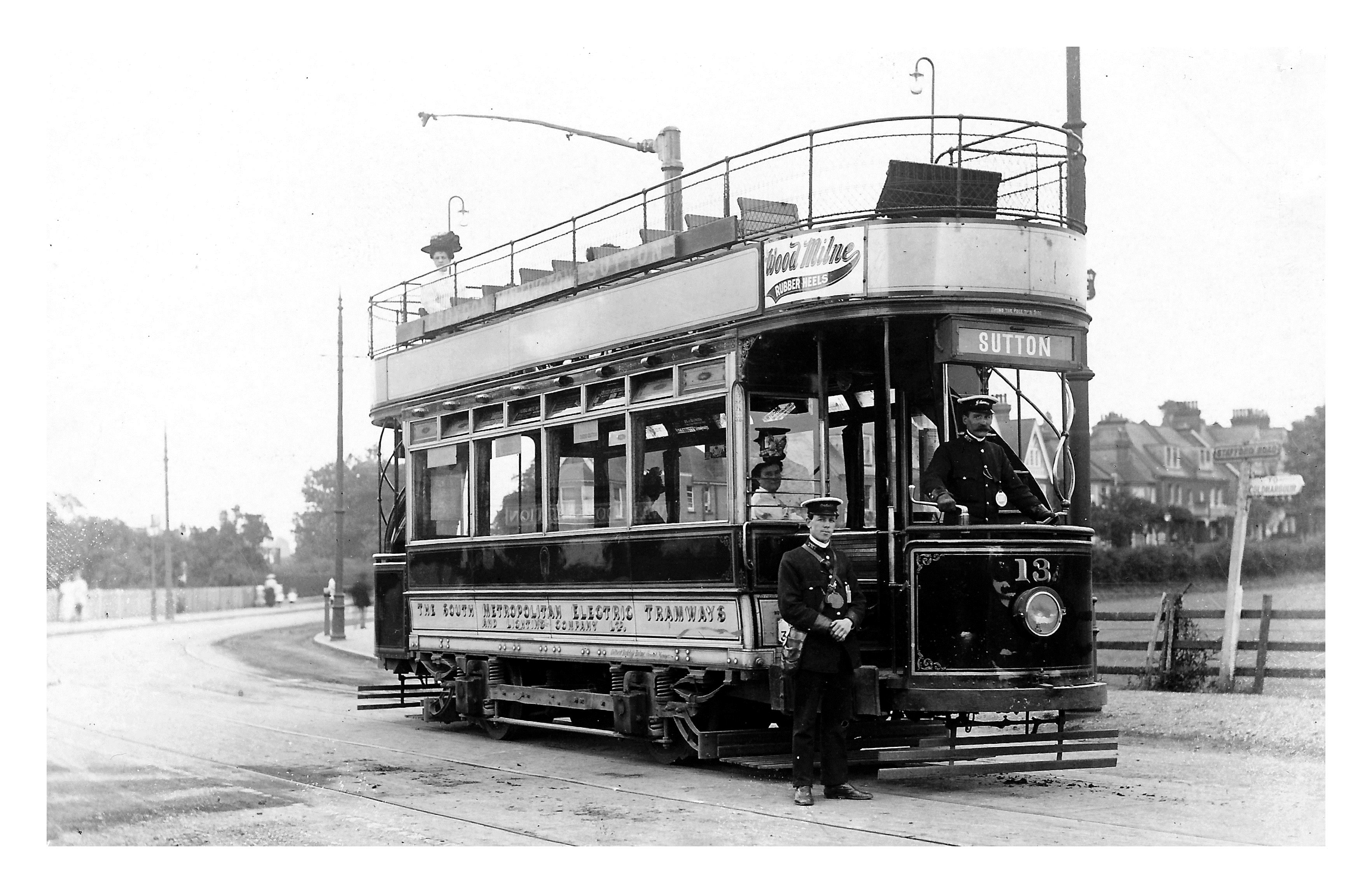 South Metropolitan Electric Tramways and Lighting Co. - Conductor and Motorman pose with Tramcar No 13 in Stafford Road, Waddon Village